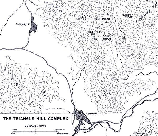 Map of Triangle Hill Area.